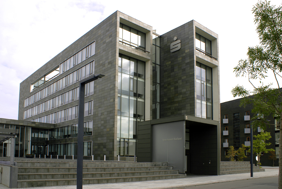 Sparekassen Sjælland (a savings and loan association) - Main office in Holbæk, Denmark